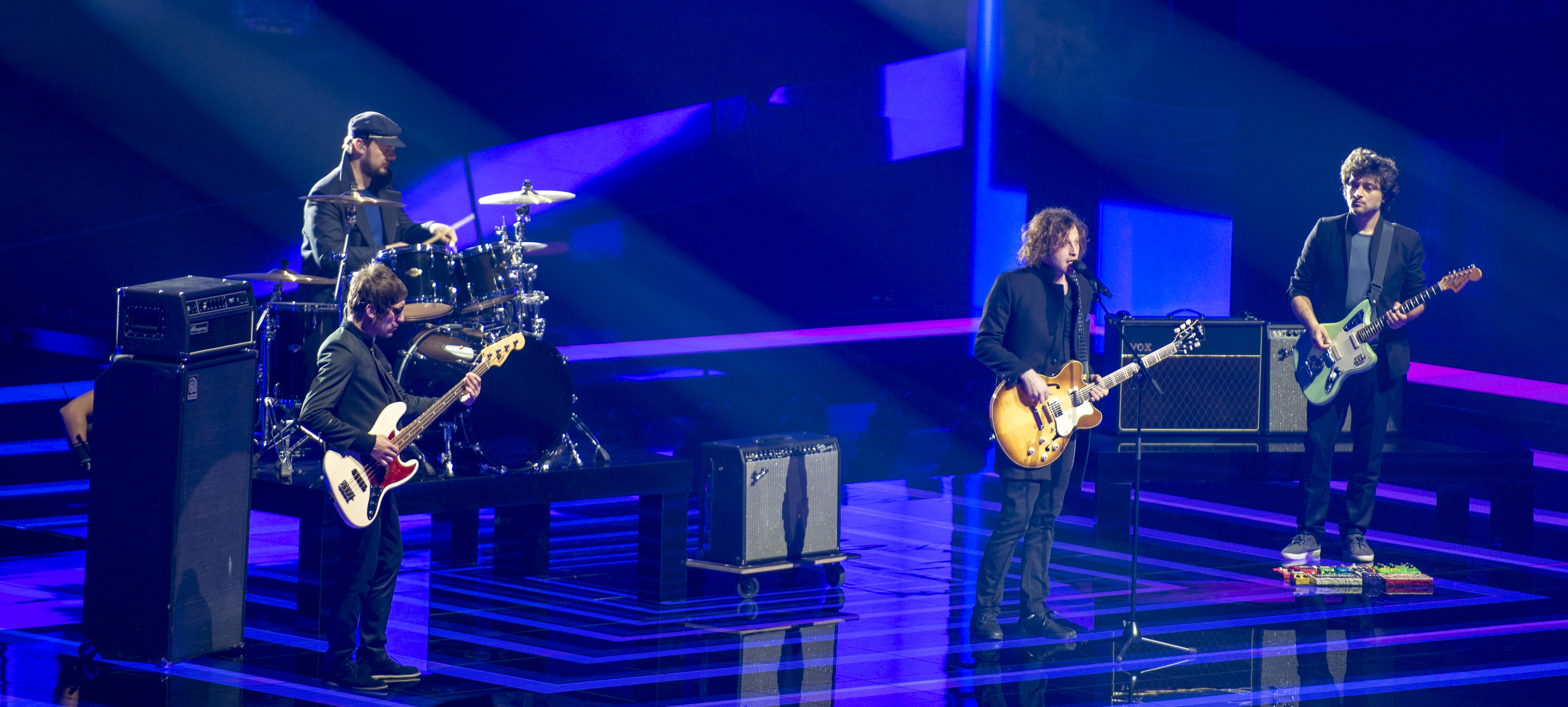 Nika Kocharov & Young Georgian Lolitaz representing Georgia with the song "Midnight Gold" during a rehearsal before the second semi final of the Eurovision Song Contest 2016 in Stockholm. (Help translate this text)